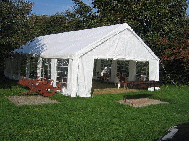 Marquee & BBQ Fox & Goose side garden.